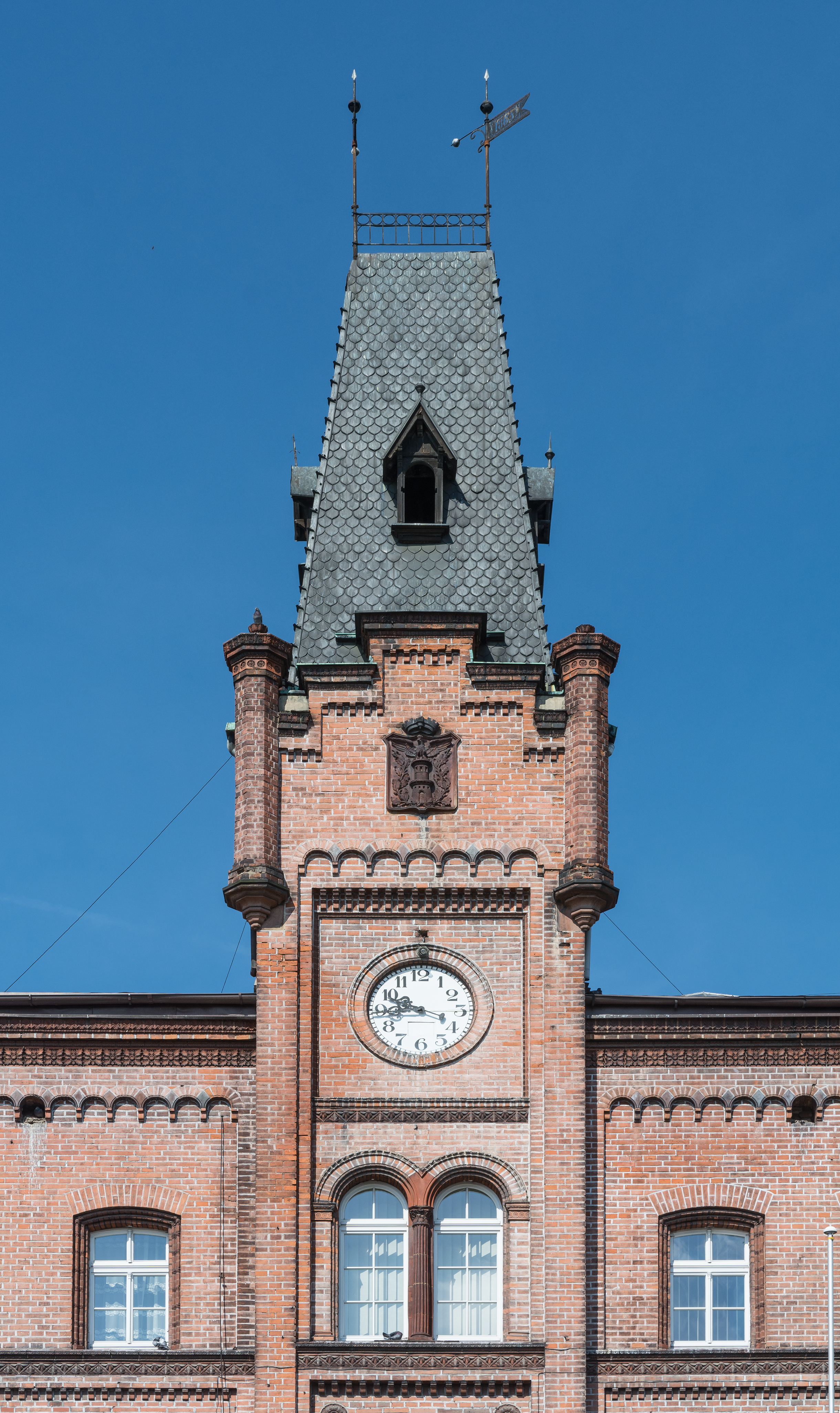 10 Market Square in Niemcza